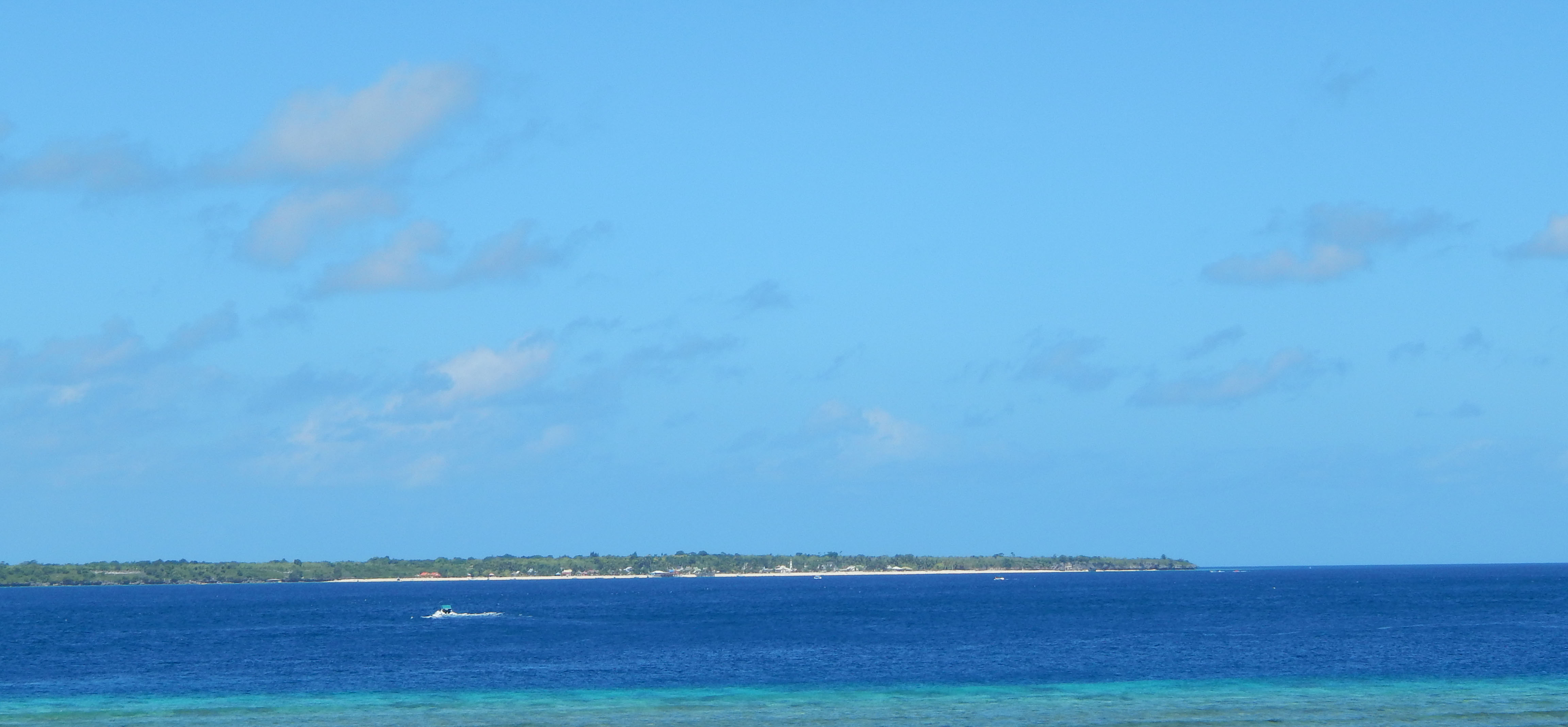 Selayar Island. A view from Pantai Bira, South Sulawesi